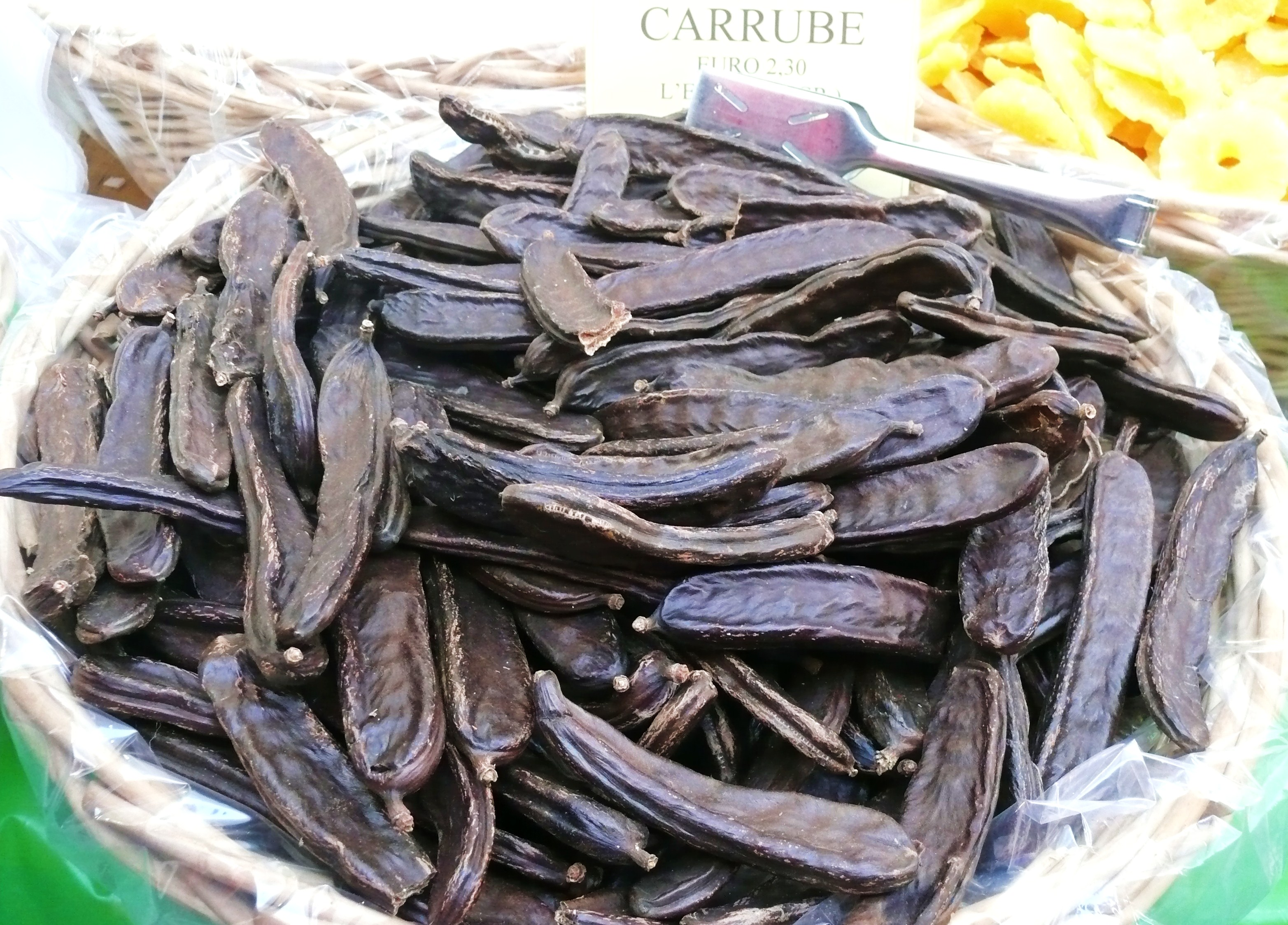 carob from Italy